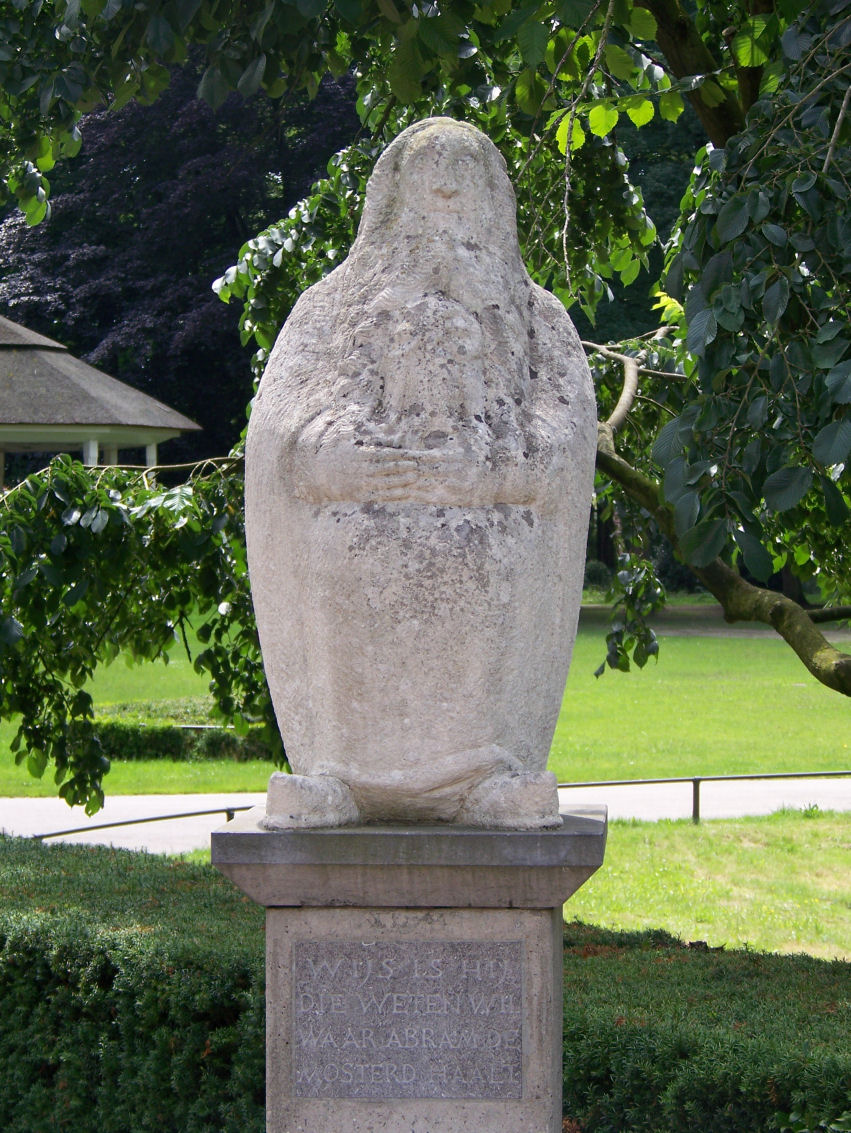 Abraham with owl by Niel Steenbergen. In Oosterhout, North Brabant (Netherlands).